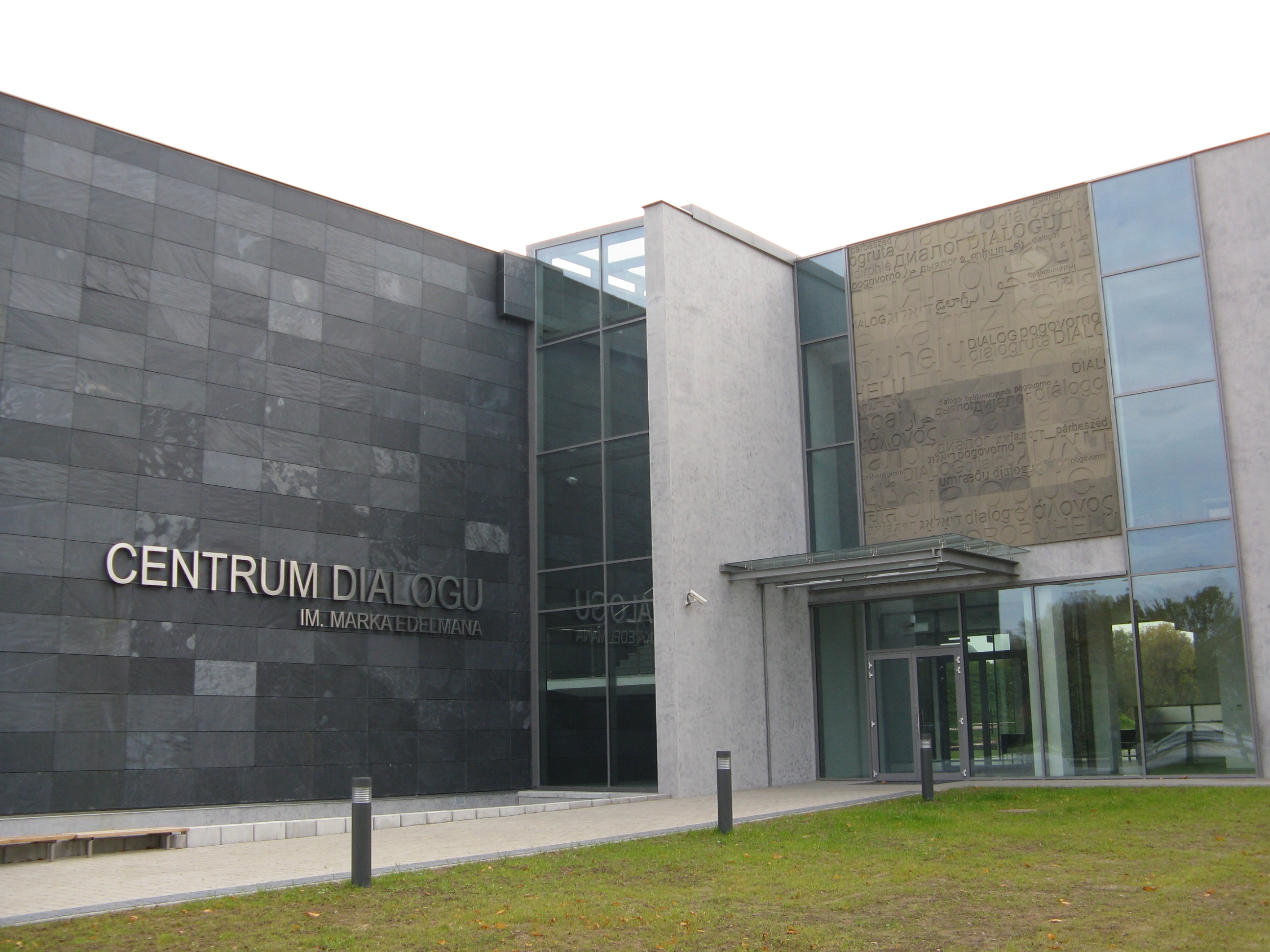 Marek Edelman Dialogue Center, Łódź October 2013